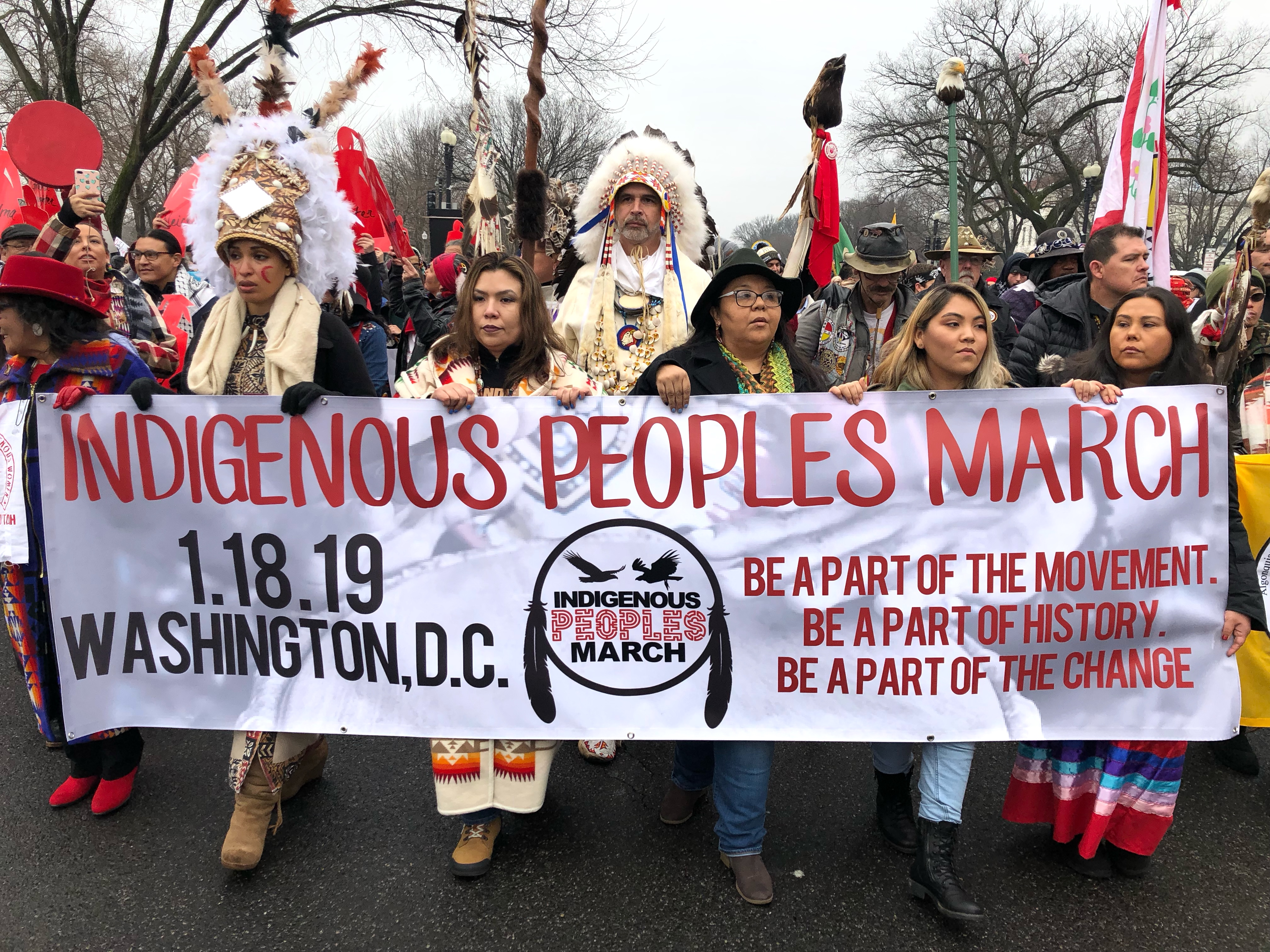 The March procession from the U.S. Department of the Interior to the Lincoln Memorial.